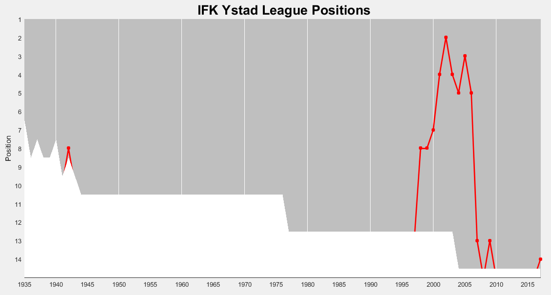 IFK Ystad positions in the top division. The grey area denotes the number of teams in the top division. For split seasons, the autumn positions are shown when the team did not play in the top division in the spring season.